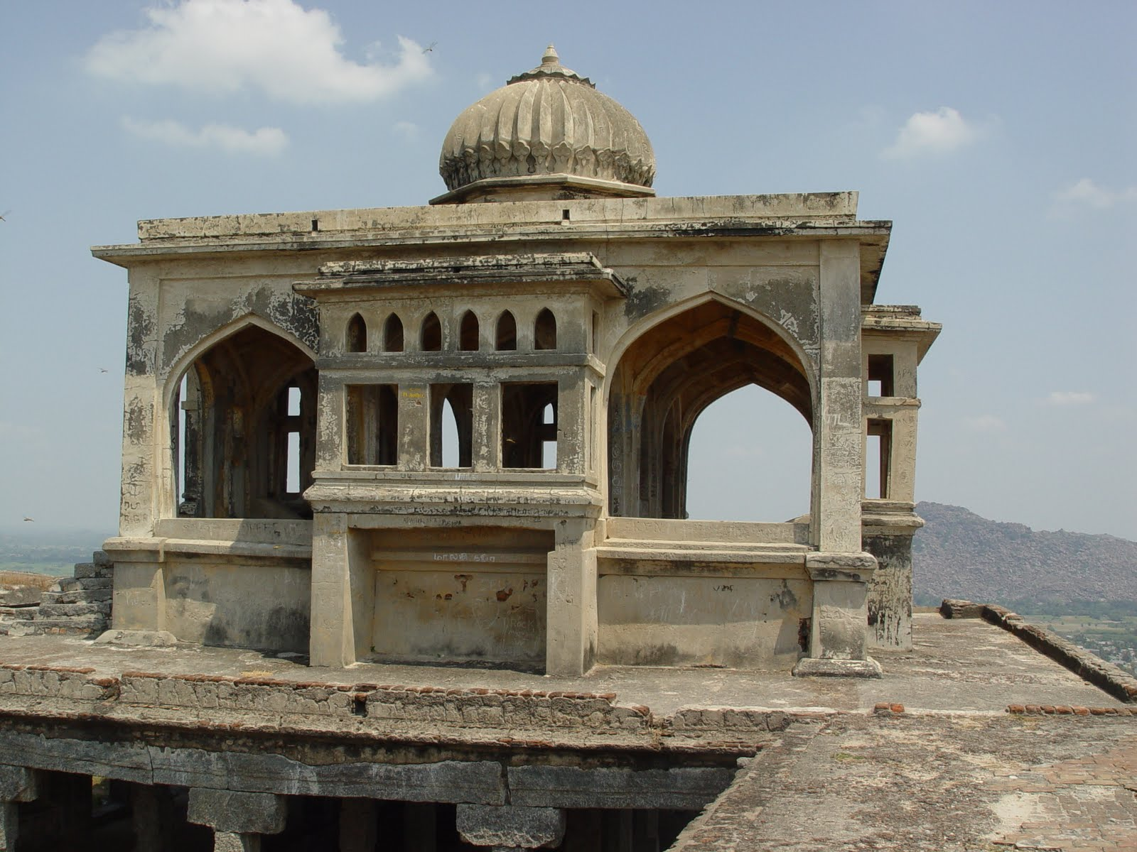 my area in gingee